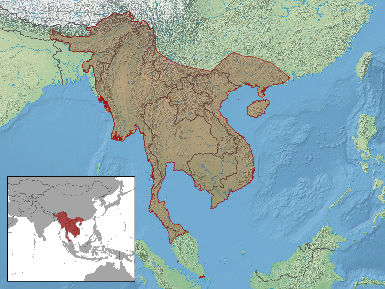 geographic distribution of Draco maculatus